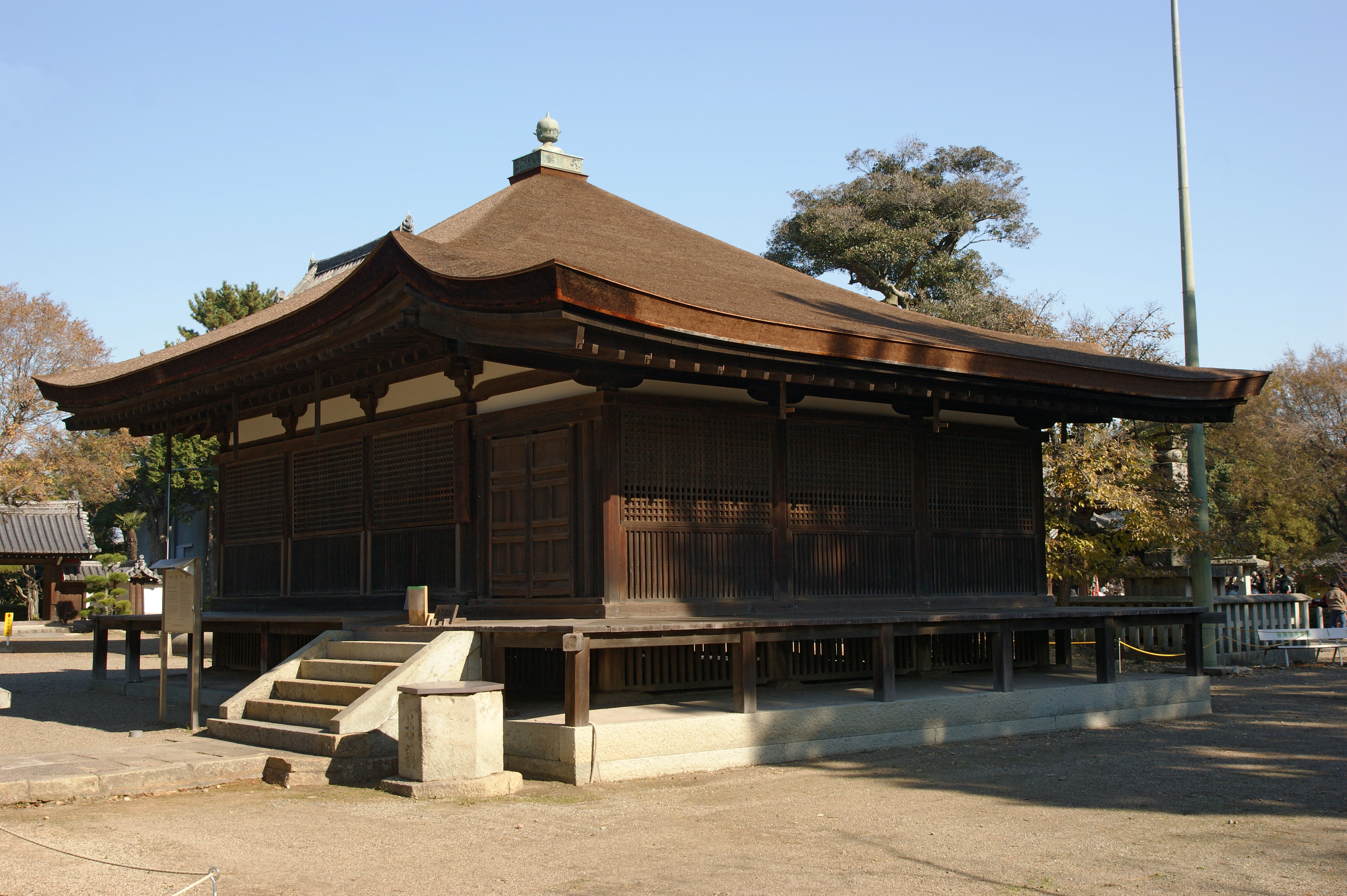 Taishido of Kakurinji Buddhist temple (Japan's national treasure), Kakogawa, Hyogo prefecture, Japan